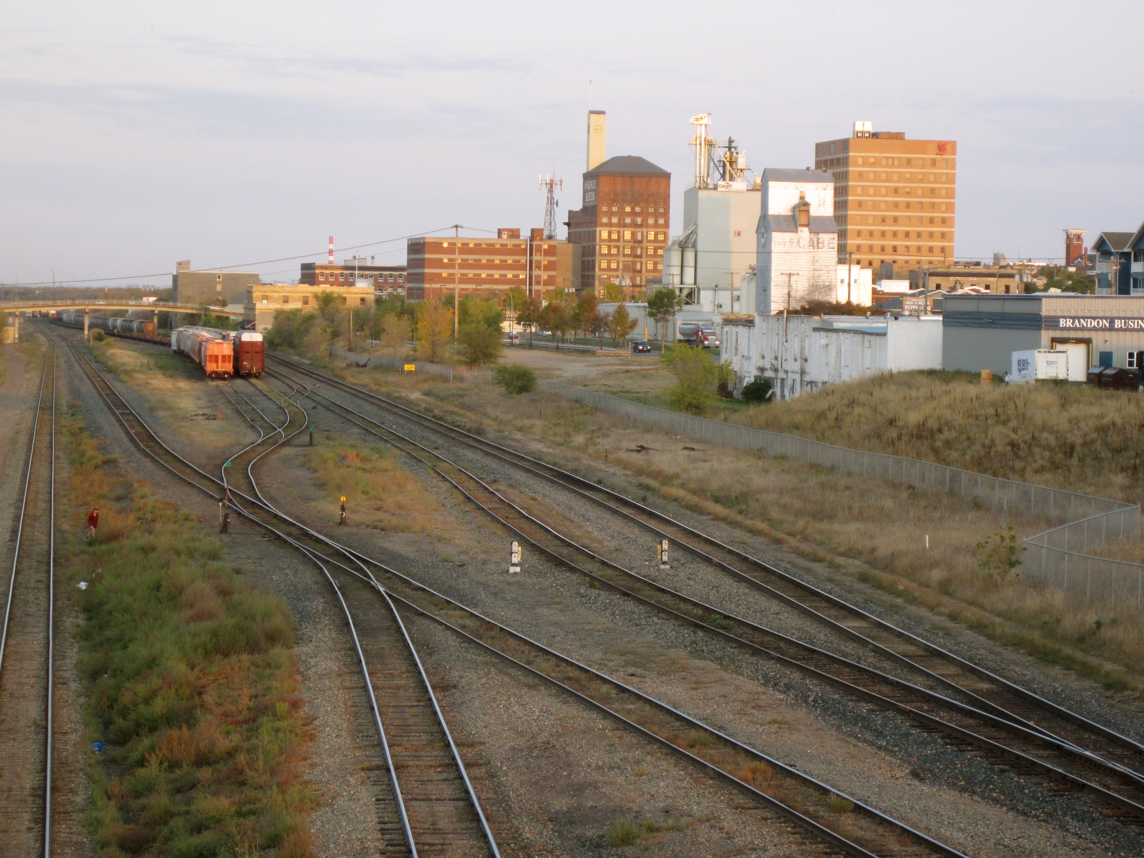 Brandon skyline looking east from the Daly overpass on 18th St. The A.E. McKenzie Co. Building is visible in the distance.